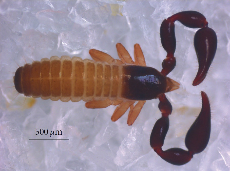 Anatemnus chaozhouensis male, dorsal view. Collected in Chaozhou City, Guangdong Province, China